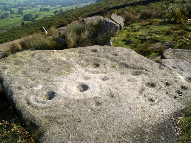 Piper's Crag Stone Cup & Ring marked rock